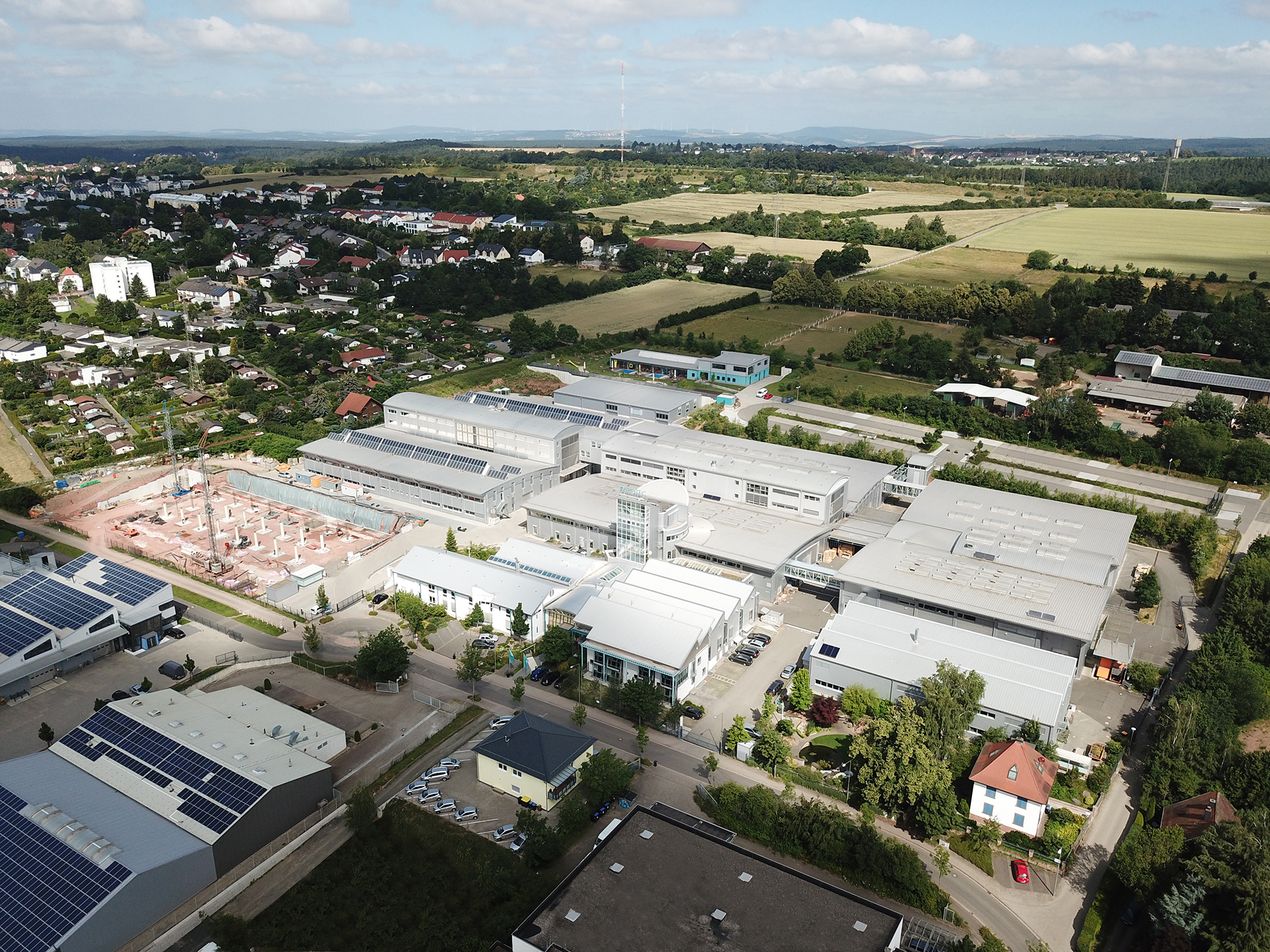 An aerial view of the company premises of Wipotec